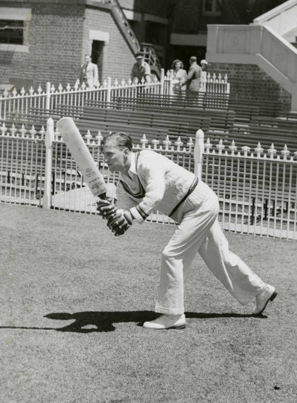 Len Hutton practising at Melbourne